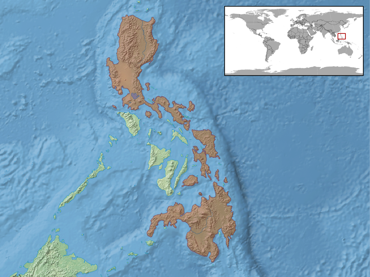 geographic distribution of Sphenomorphus abdictus (IUCN) syn. Pinoyscincus abdictus (RDB)